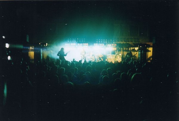 Ancient live in Bulgaria (2003)